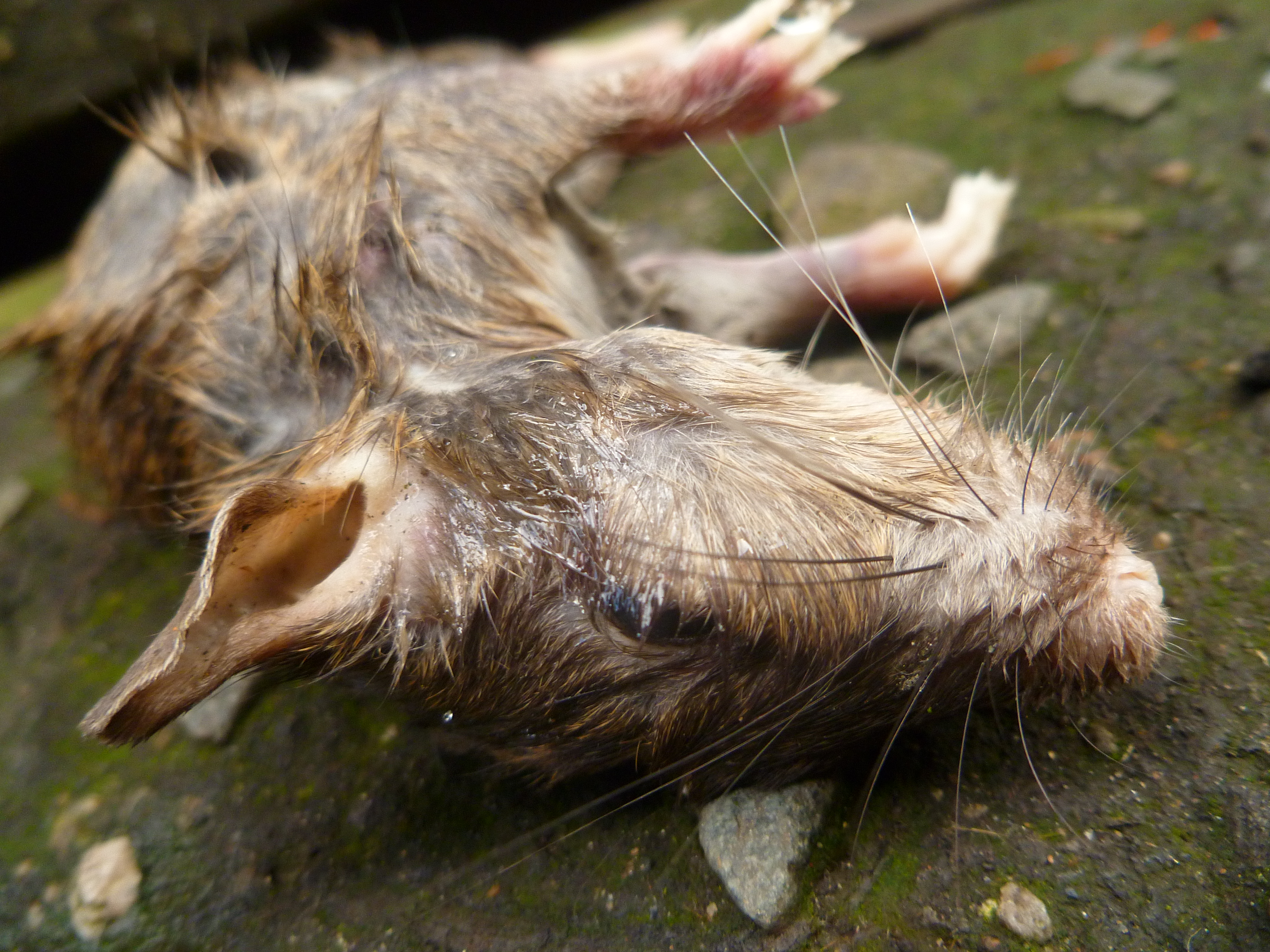 A dead rat in an alley in Manchester city centre.